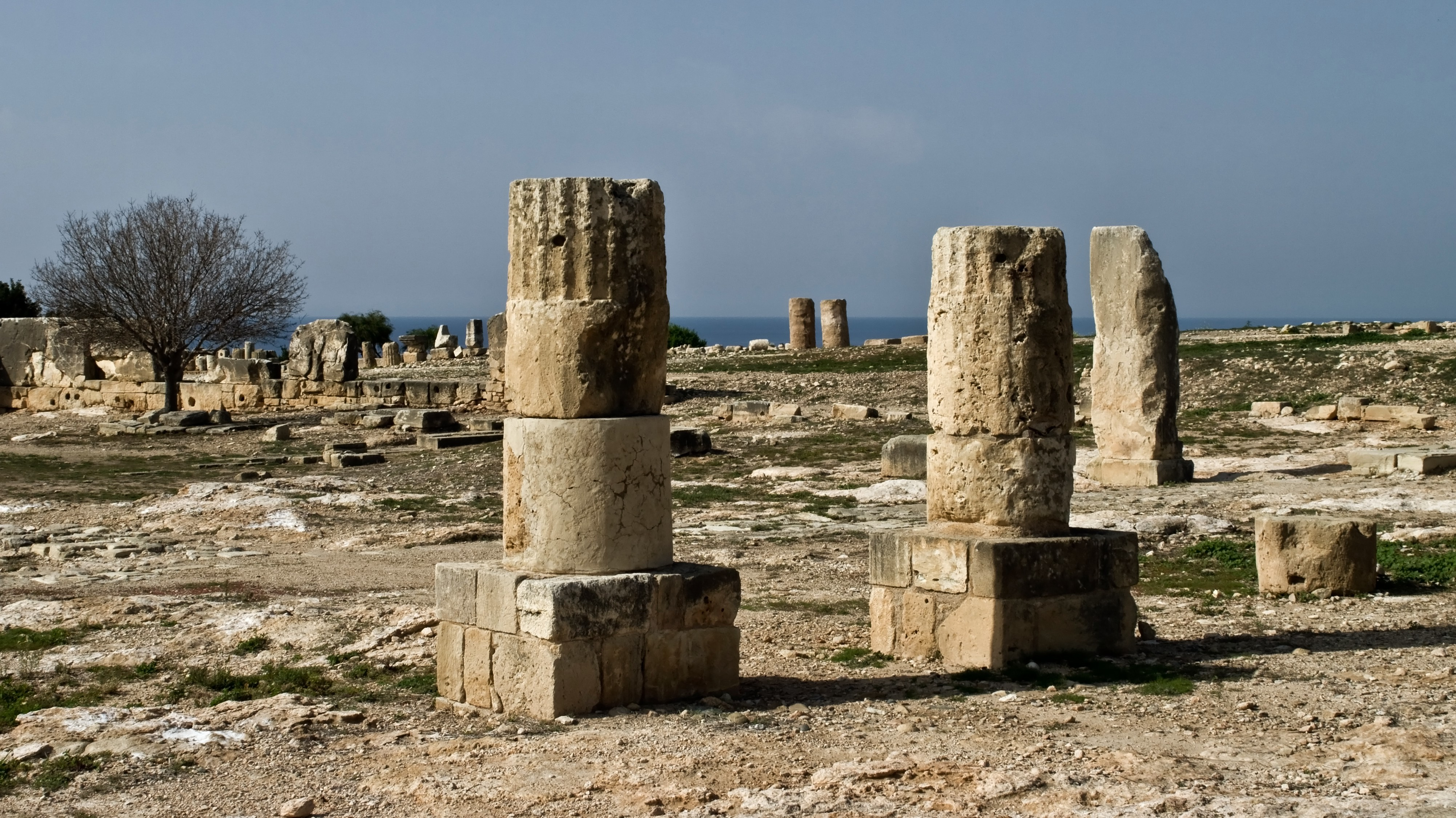 The Sanctuary of Aphrodite in Kouklia, Cyprus.